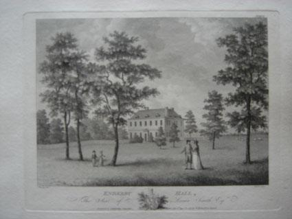 Enderby Hall - Engraved Illustration from Select Views in Leicestershire From Original Drawings Containing Seats of the Nobility and Gentry, Town Views and Ruins By J. Throsby.